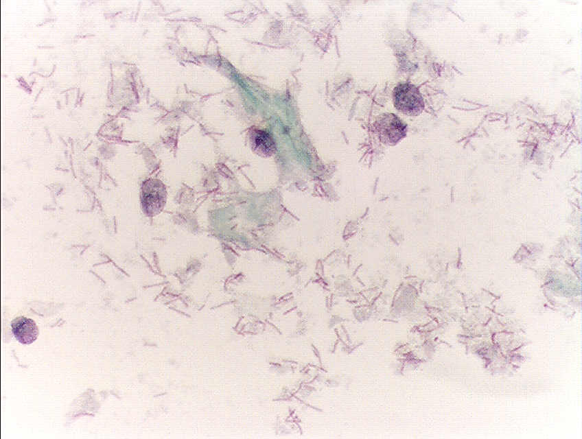 Pap test, Papanicolau stain, 400x. Doderlein citolysis (the ctcoplasms of squamous epithelial cells melted out; many Doderlein bacilli can be seen)